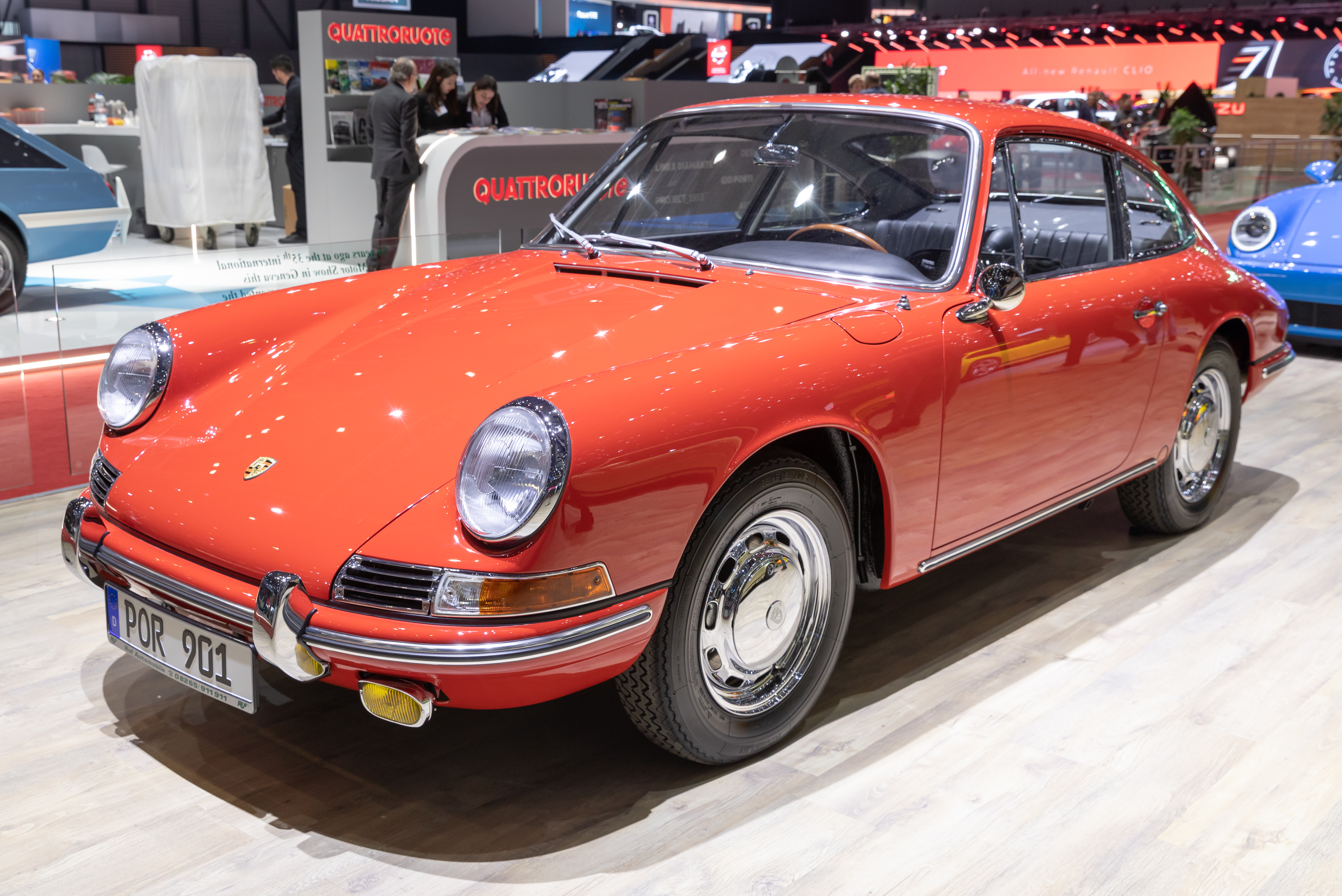 Geneva International Motor Show 2019, Le Grand-Saconnex